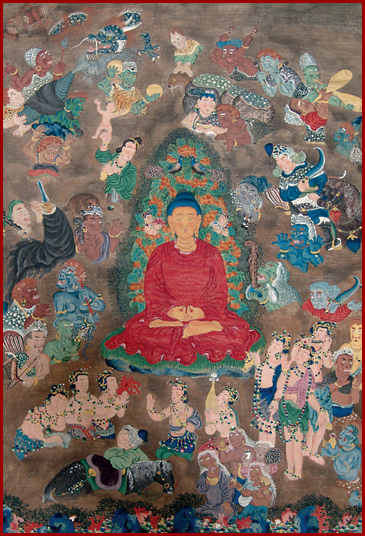 The Tenth Karmapa, Chöying Dorje, among the most original artists in Tibetan history, painted this remarkable scene from the Buddha’s life story. On the verge of his enlightenment, Prince Siddhartha is seated beneath the Bodhi Tree. Though surrounded by the legions of obstacles and temptations he had to overcome in order to reach that point, depicted here in the form of demons and temptresses, the Buddha-to-be remains tranquil, his resolve to awaken utterly unshaken.